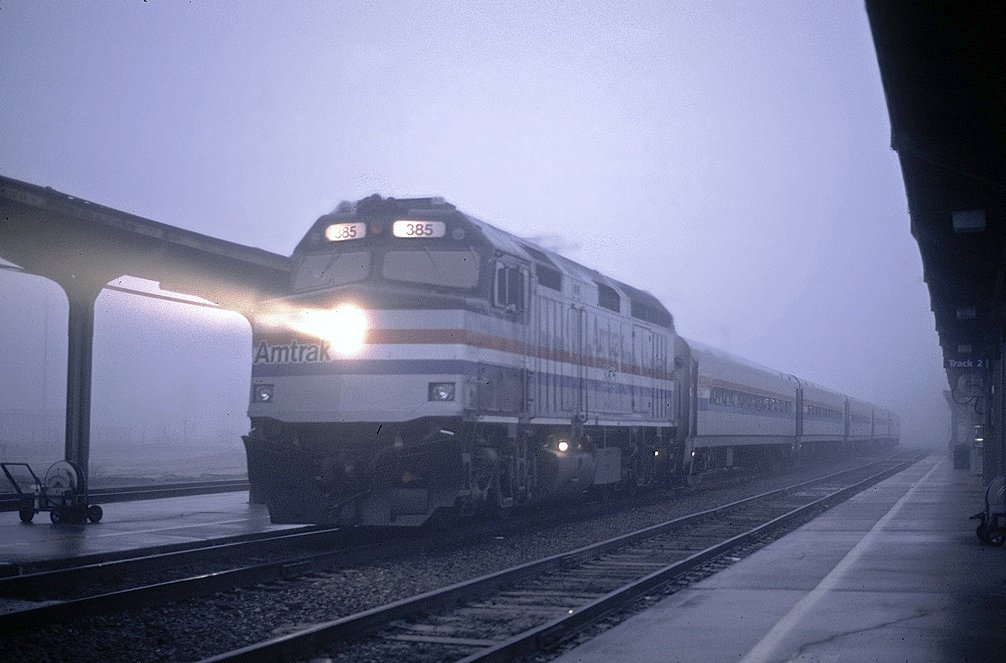 Early morning Capital at the Sacramento Station February 1995, shot on Lindsay-Ferrari time.